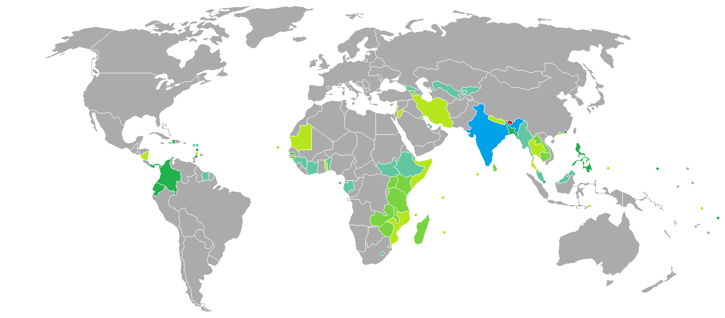 Visa requirements for Bhutanese citizens Bhutan Visa free access Visa on arrival eVisa Visa available both on arrival or online Visa required